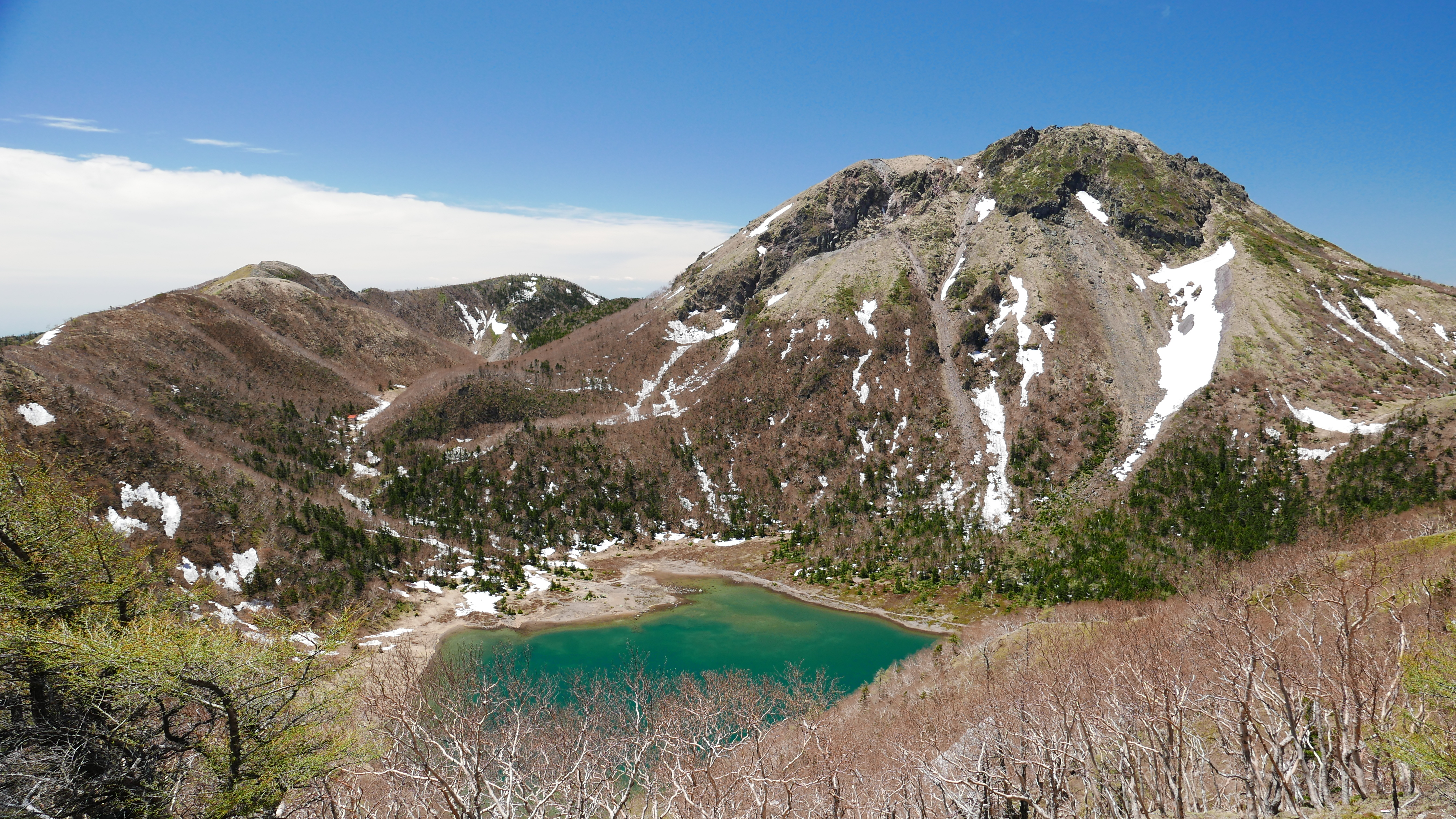 The northeast face of Mount Nikko-Shirane's lava dome. Goshiki pond in the foreground.